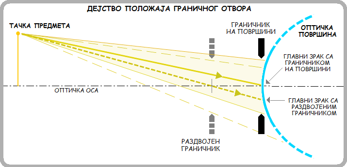 ДЕЈСТВО ПОЛОЖАЈА ГРАНИЧНОГ ОТВОРА